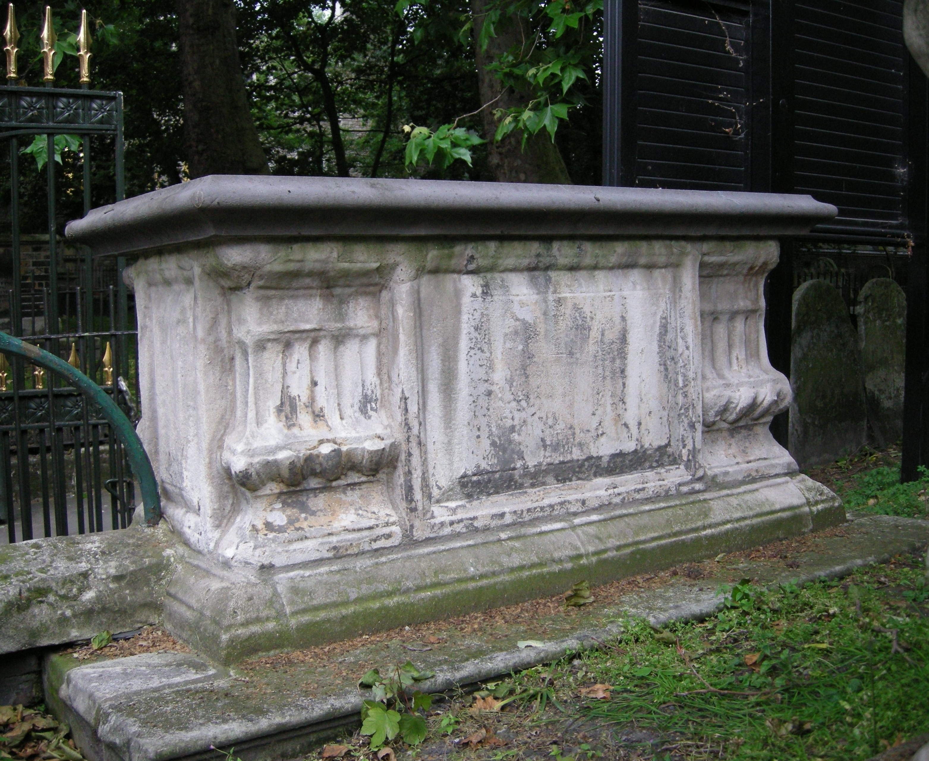 Tomb monument of Richard Price (1723–1791), moral philosopher, in Bunhill Fields burial ground: north side. Inscription reads: "Revd. Richard Price DD FRS who died 19th April 1791 aged 68 years and of Sarah, wife of the said Richard Price who died 29th September 1786 aged 58 years".